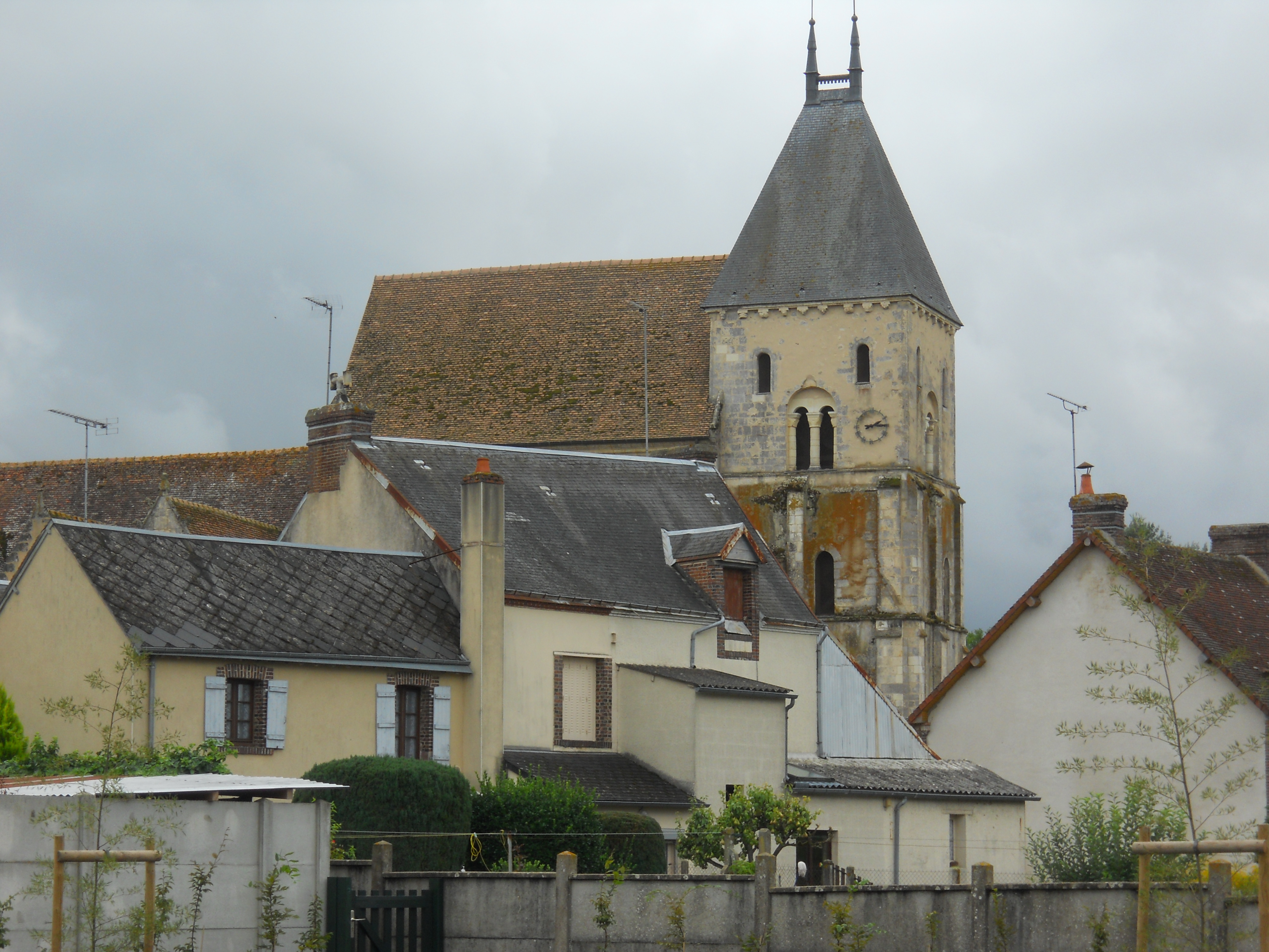 The Saint-Pierre-ès-Liens church in Ceton, France. Classed en 1974.